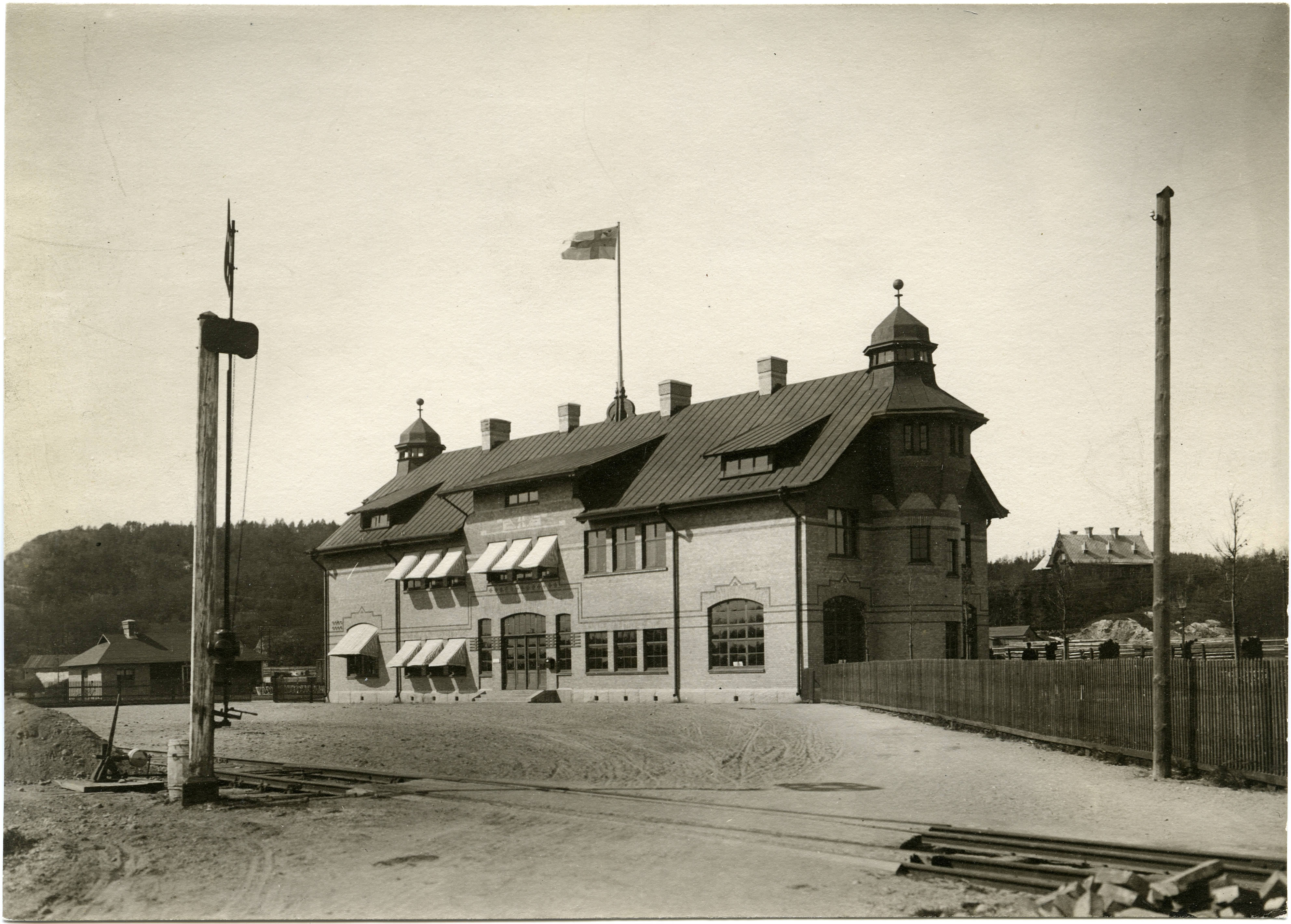 Uddevalla Stationshus. Text på baksida: "Järnvägsmuseum", "Udevalla stationshus" Fotografering 1905 (Före 1905) FOTOGRAF Fotograf okänd, Text på kuvert: "Uddevalla" IDENTIFIER JvmKDAA14766 PART OF COLLECTION Järnvägsmuseets foton OWNER OF COLLECTION Järnvägsmuseet INSTITUTION Järnvägsmuseet DATE PUBLISHED June 27, 2018 DATE UPDATED February 7, 2019 DIMU-CODE 021017858248 UUID 225BFD64-F101-4C95-B22C-C40050CF2DE9